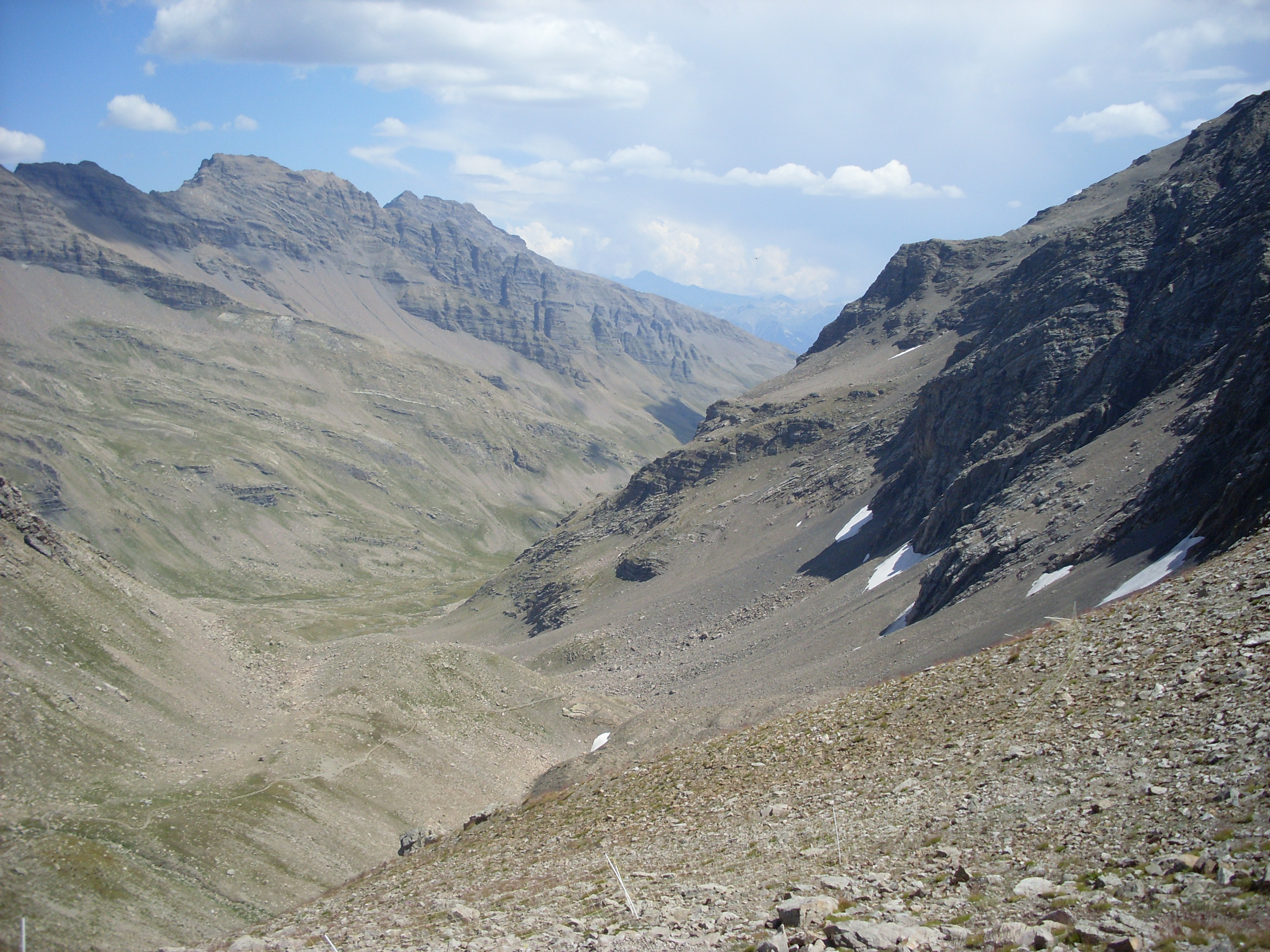 vallée de chichin.